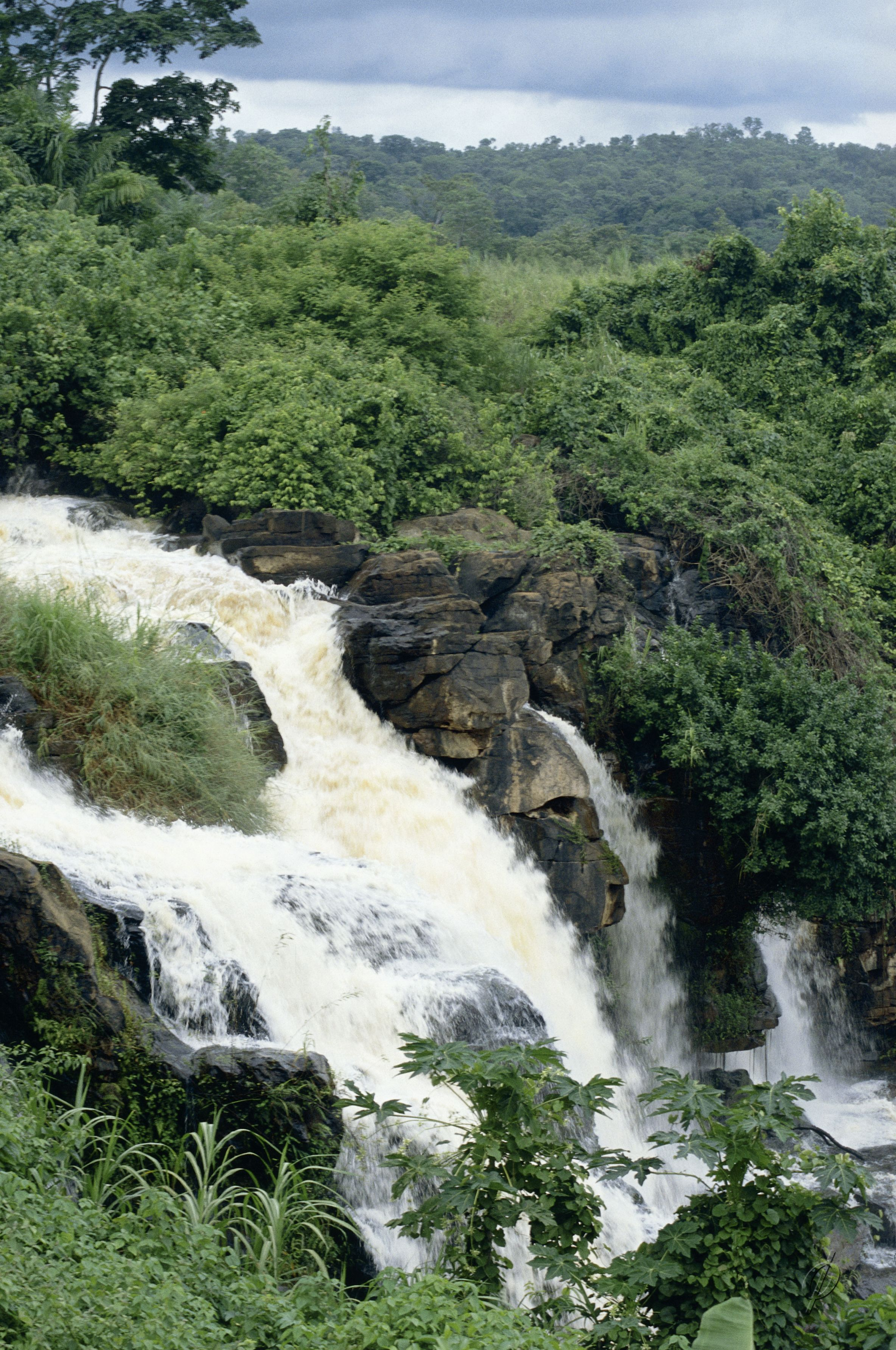 Falls of Boali on the Mbali River. Fall of 50m height on 250m width - Central African Republic - July / August 1993